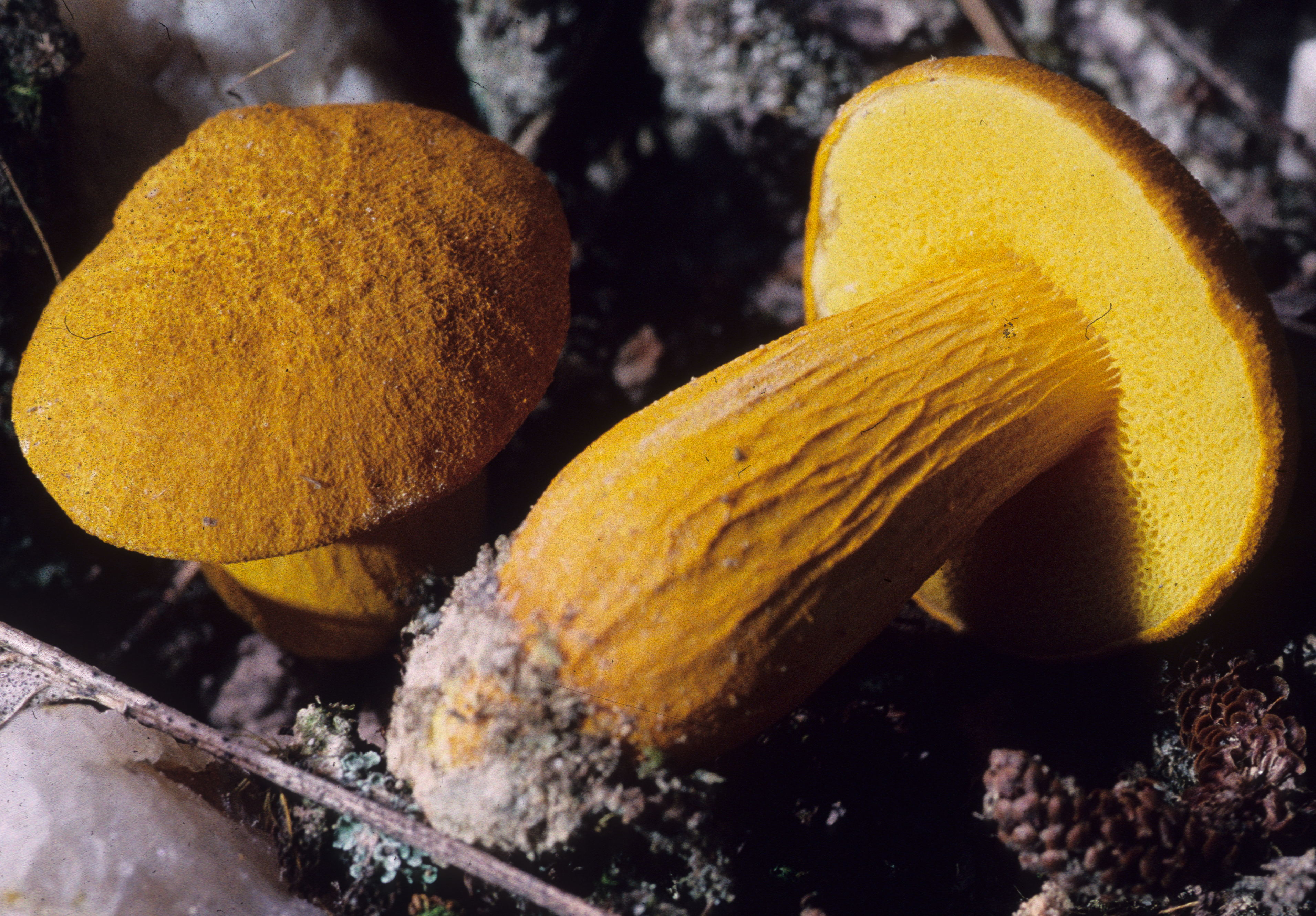 Fruit bodies of the bolete mushroom Boletus auriflammeus Berk. & M.A.Curtis. Specimens photographed in Uwharrie National Forest, North Carolina, USA.